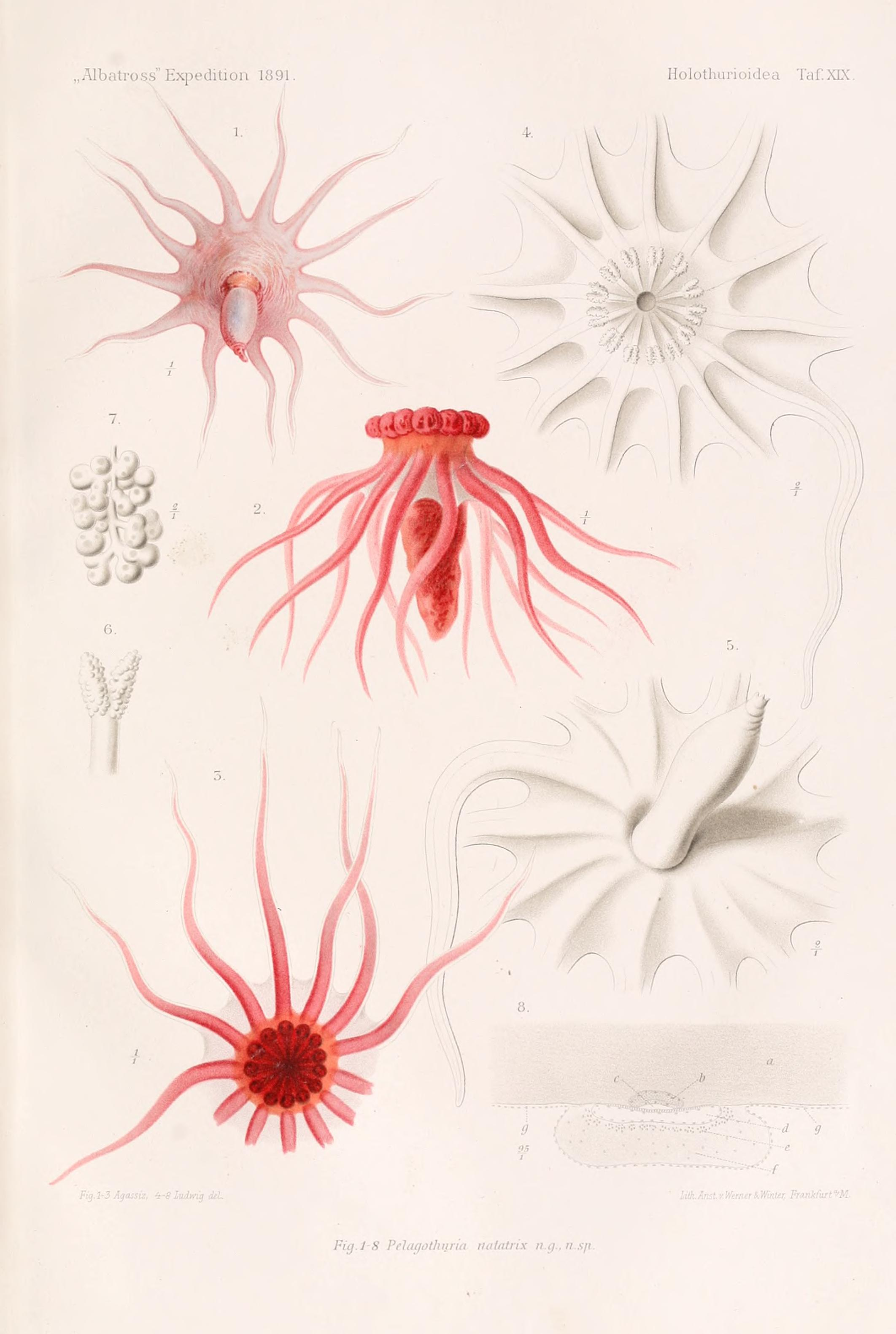 Descriptive illustration of ' by Hubert Jacob Ludwig. Excerpt from Memoirs of the Museum of Comparative Zoölogy, at Harvard College, Cambridge, Massachussets (1894).